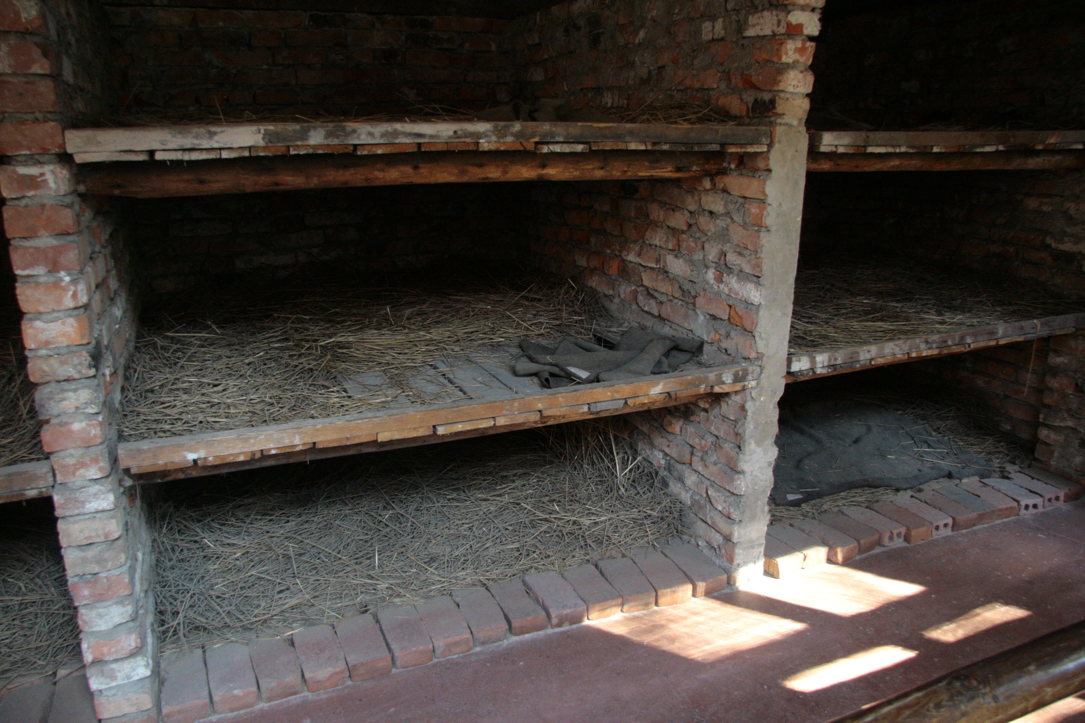 Bunks at the Auschwitz 1 concentration camp